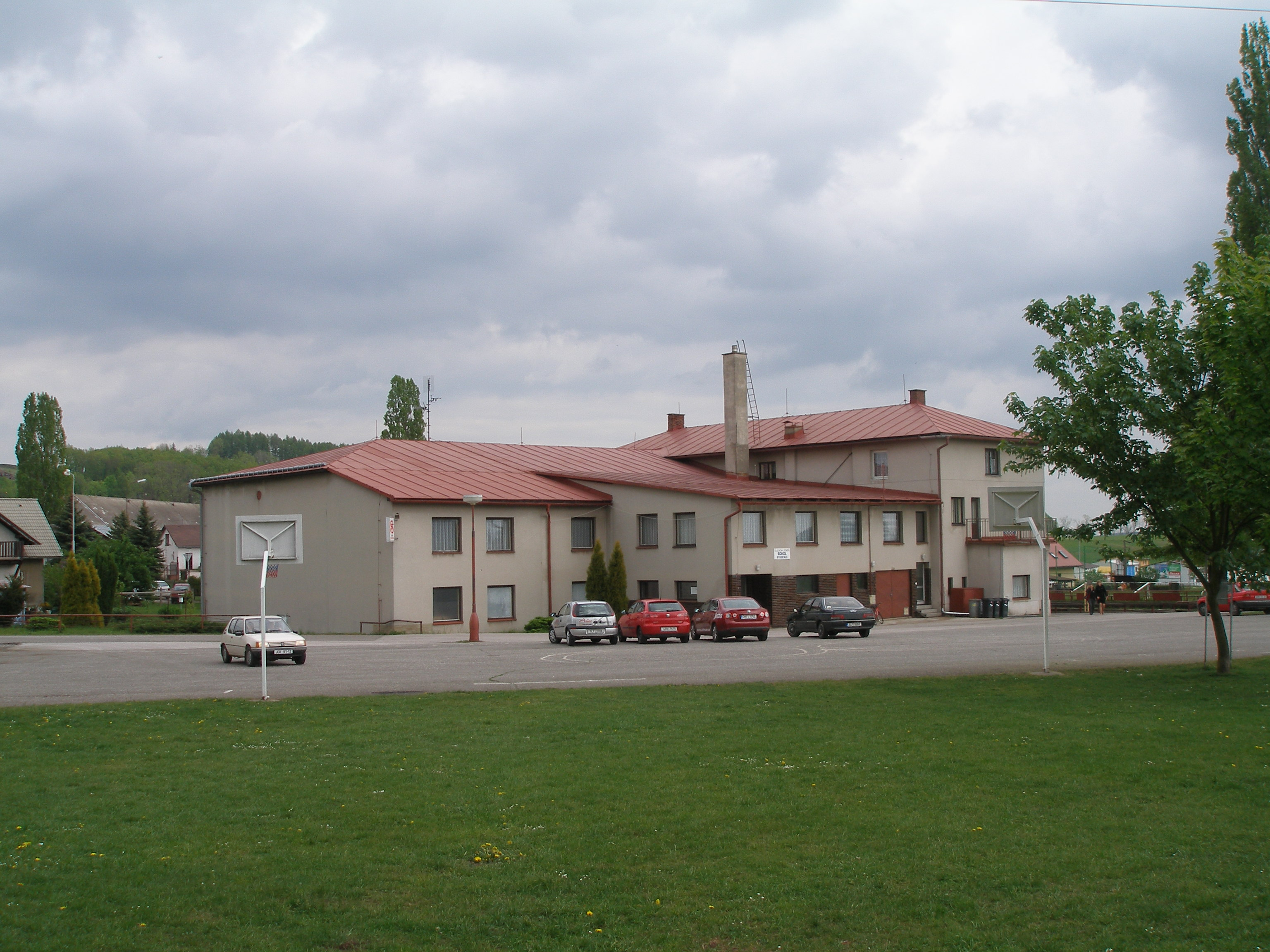 House of the gymnastic union Sokol (Falcon) in Studenec (Semily district)